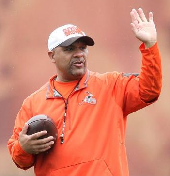 Hue Jackson - Browns Head Coach 2016 Minicamp